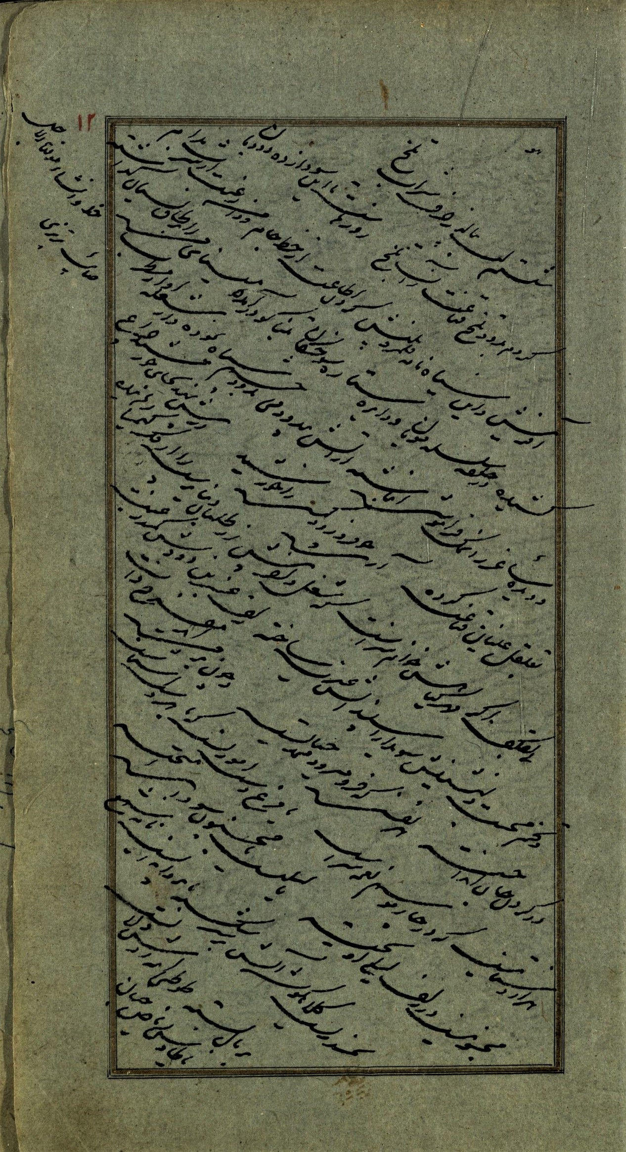 Author: Saib Tabrizi -(1592-1676) A Note by Saib Tabrizi in literary collection compiled by Mirza Muhammad-Fayaz Sabzevari Central Library and Documentation Center of the University of Tehran Reference Number: 9707, page: 12 (front)